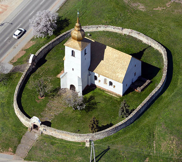 Reformed churches in Vörösberény district of Balatonalmádi, Veszprém County. Listed Id 9658. A Baroque church with Romanesque & Gothic elements. Object location47° 02′ 48.12″ N, 18° 00′ 30″ E This is a photo of a monument in Hungary, Identifier: 9658